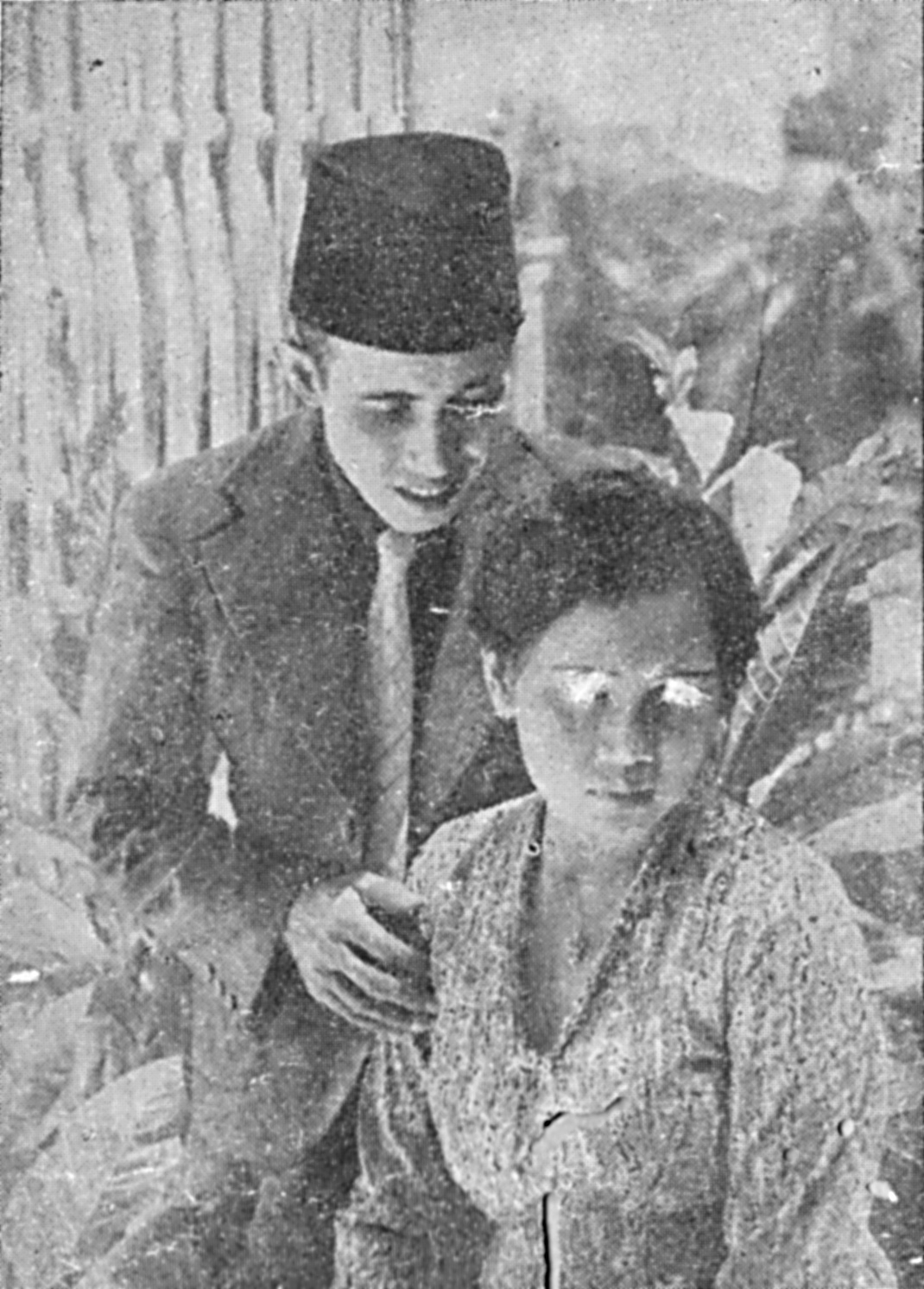 A scene from the 1940 Union Films production Harta Berdarah